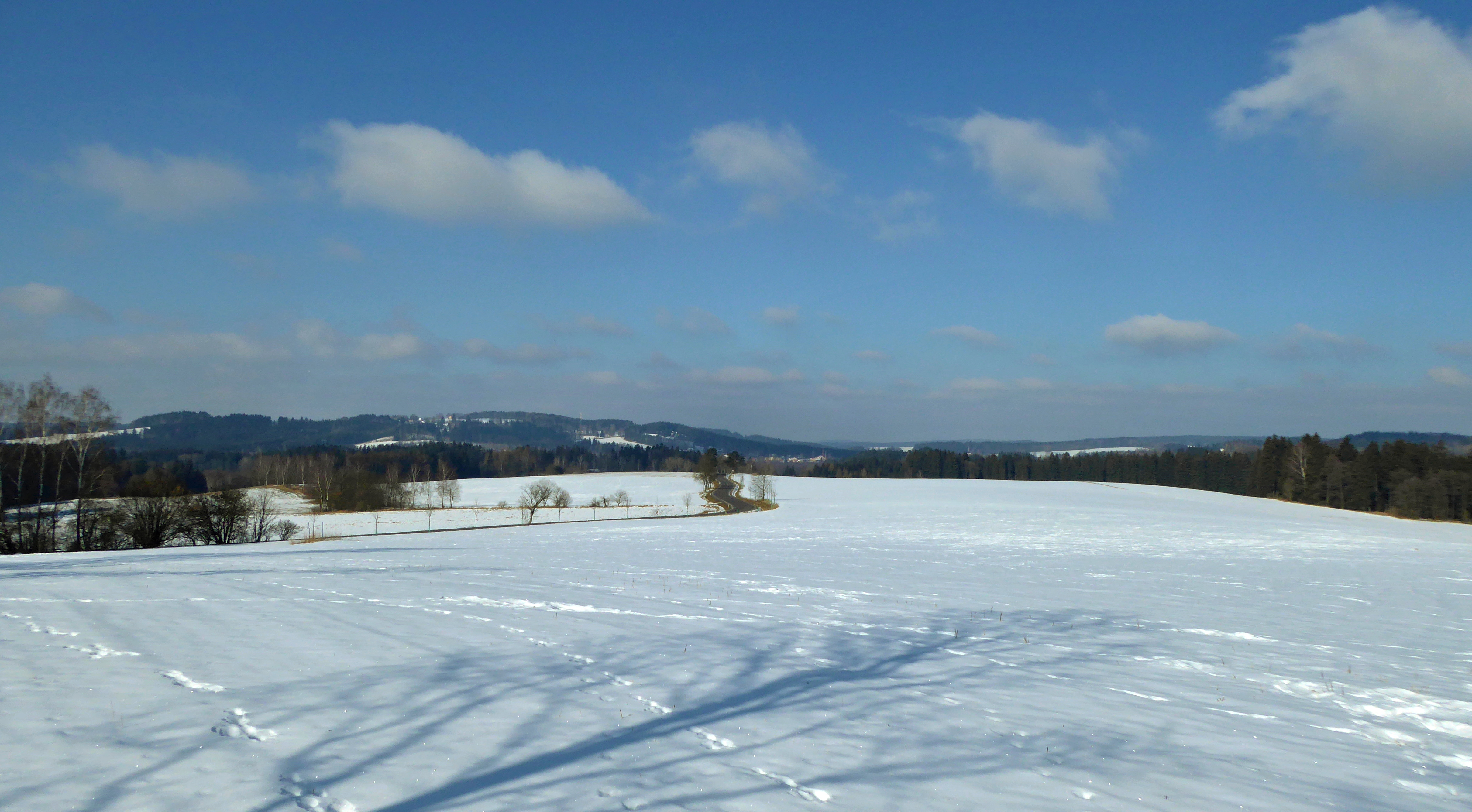 Winter landscape in the locality with name Near Saint Nicholas (czech: U Svatého Mikuláše), height point "Za vrchy" (583 m), view from the road to Petrkov (1st part). In the photo: the road II/343 in a section "Trhová Kamenice" – "Rváčov", is an border of two protected landscape areas, to the left the Protected Landscape Area of "Žďárské" hills and on the right the Protected Landscape Area of Iron Mountains. On the horizon Zuberský vrch (651 m) above small town with name "Trhová Kamenice". Saint Nicholas (czech: Svatý Mikuláš) and Petrkov (1st part) are settlement sites in the cadastral area of Rváčov, part of the Vysočina village in the Pardubický Region in the territory of the Czech Republic. On the road is led cycle route No. 4183 (in section: Králova Pila – Rváčov – Svatý Mikuláš – Petrkov 1st part). Photo location: Czechia, Pardubice Region, municipality Vysočina, cadastral territory "Rváčov", the landscape area "Kameničská" Highlands (geomorphological district).